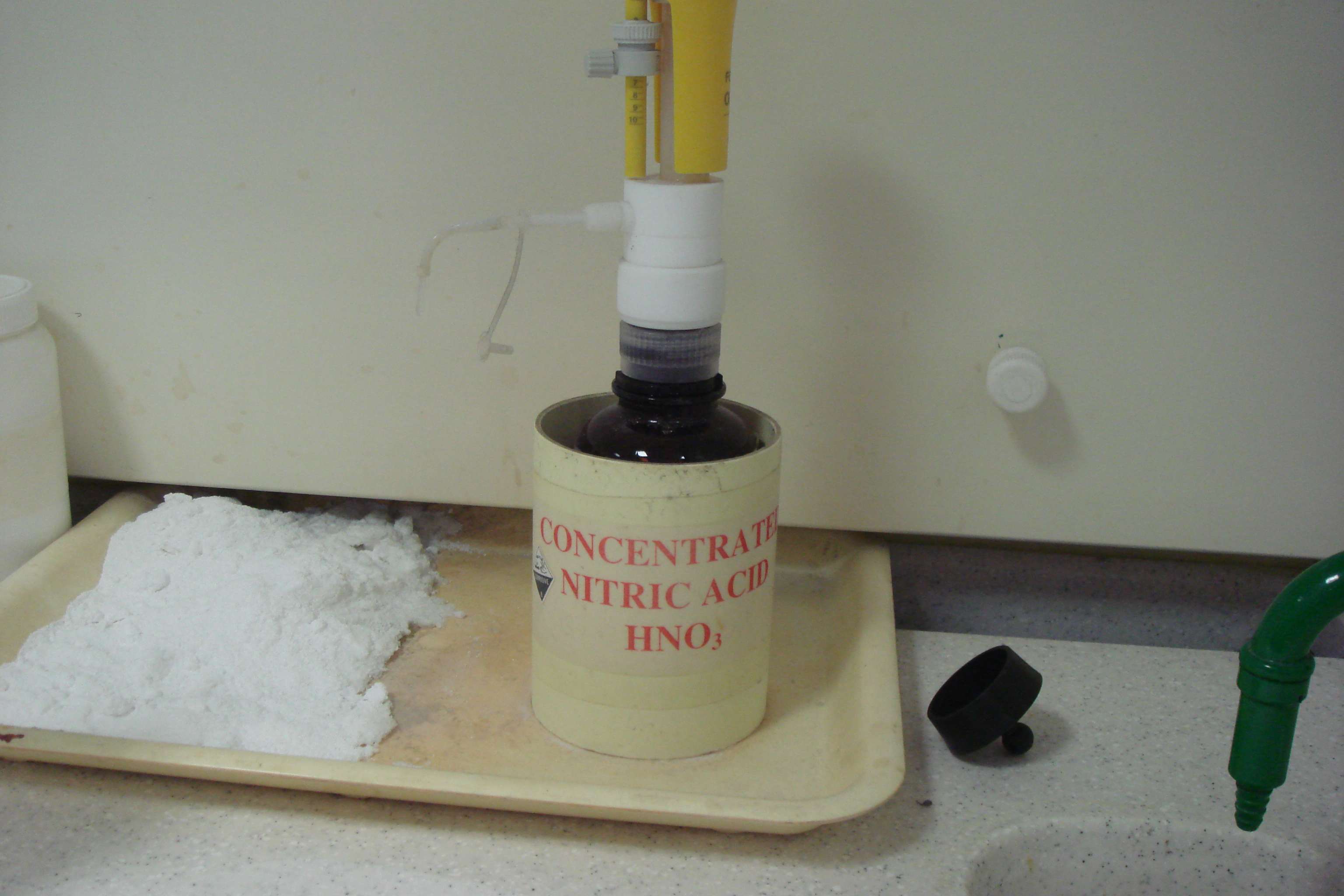 Photo taken by me of nitric acid in a UWA chem lab. All own work, public domain.